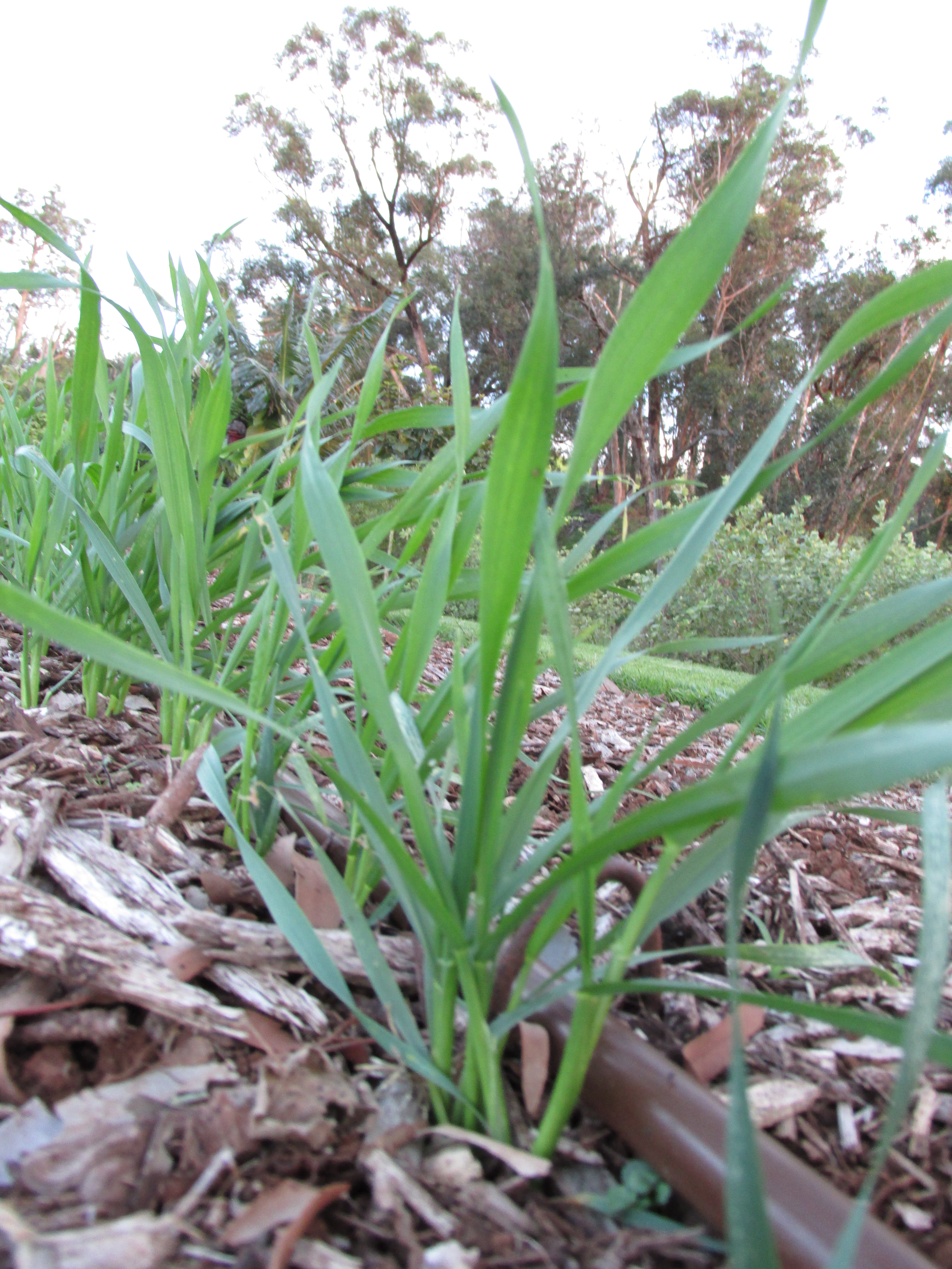 Triticum aestivum (Bread wheat) Habit at Hawea Pl Olinda, Maui, Hawaii. March 10, 2015 #150310-0444 Image Use Policy